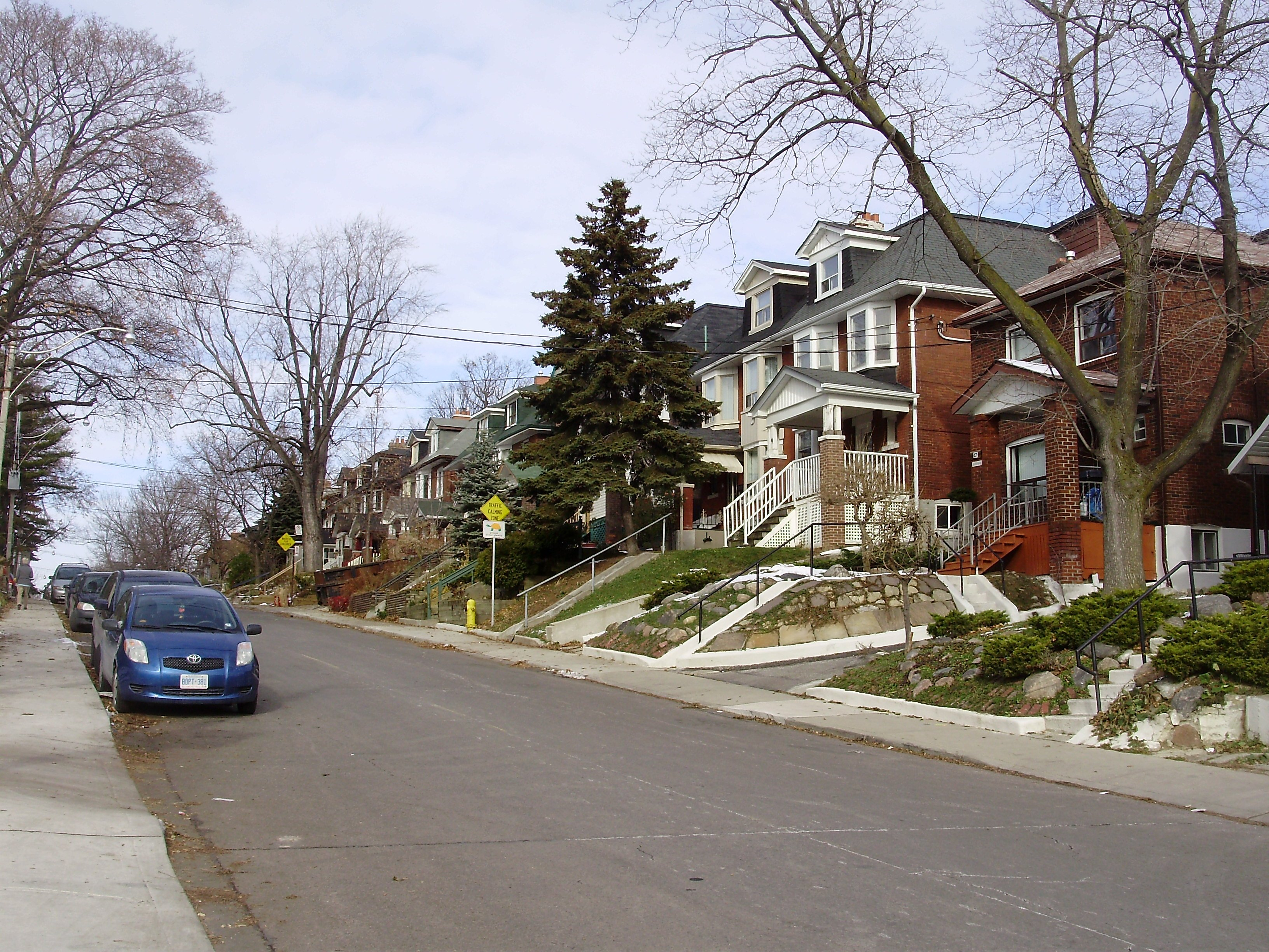 Houses line Alberta Avenue in the Wychwood neighbourhood of Toronto, Ontario, Canada.